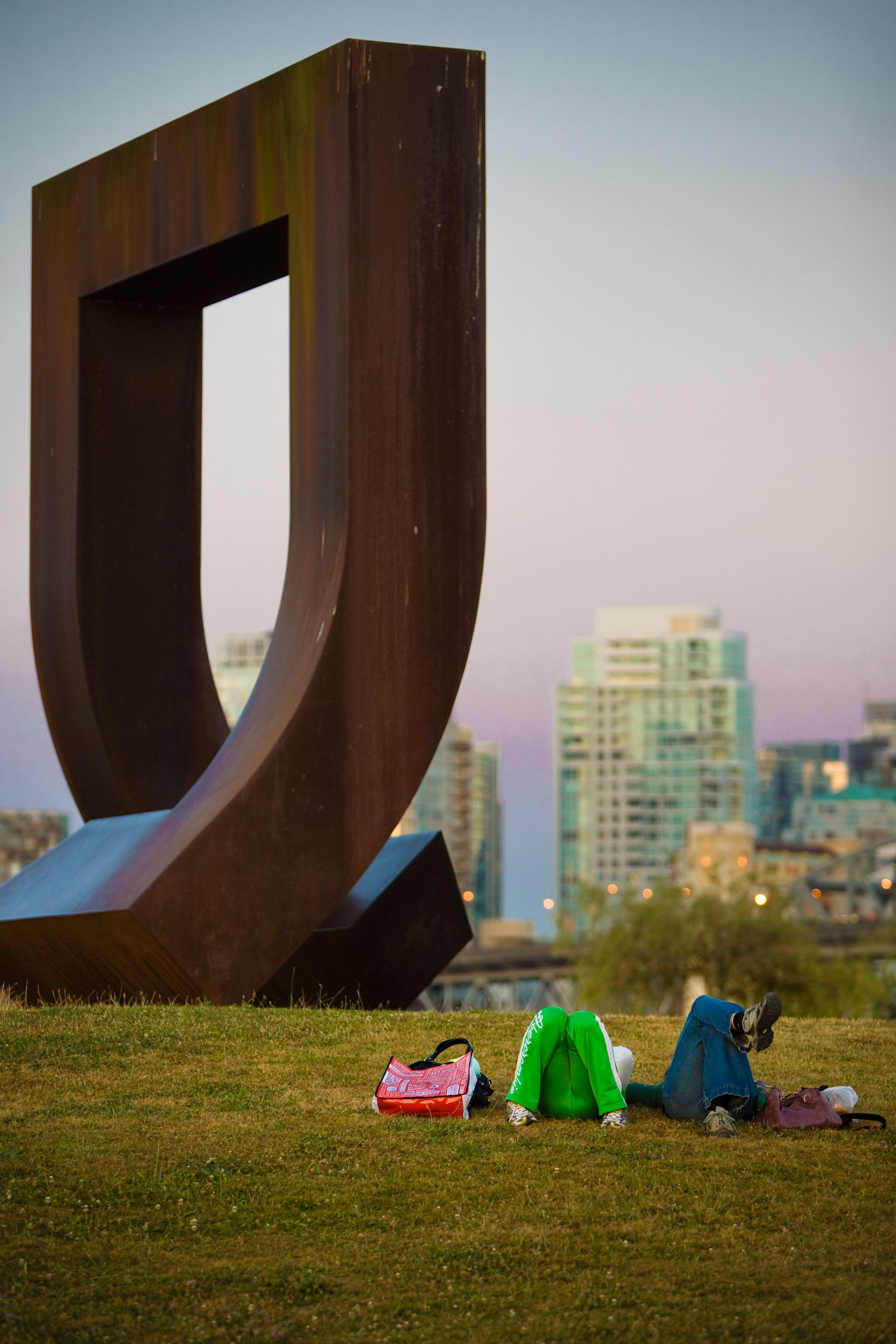 But now its Monday. :(